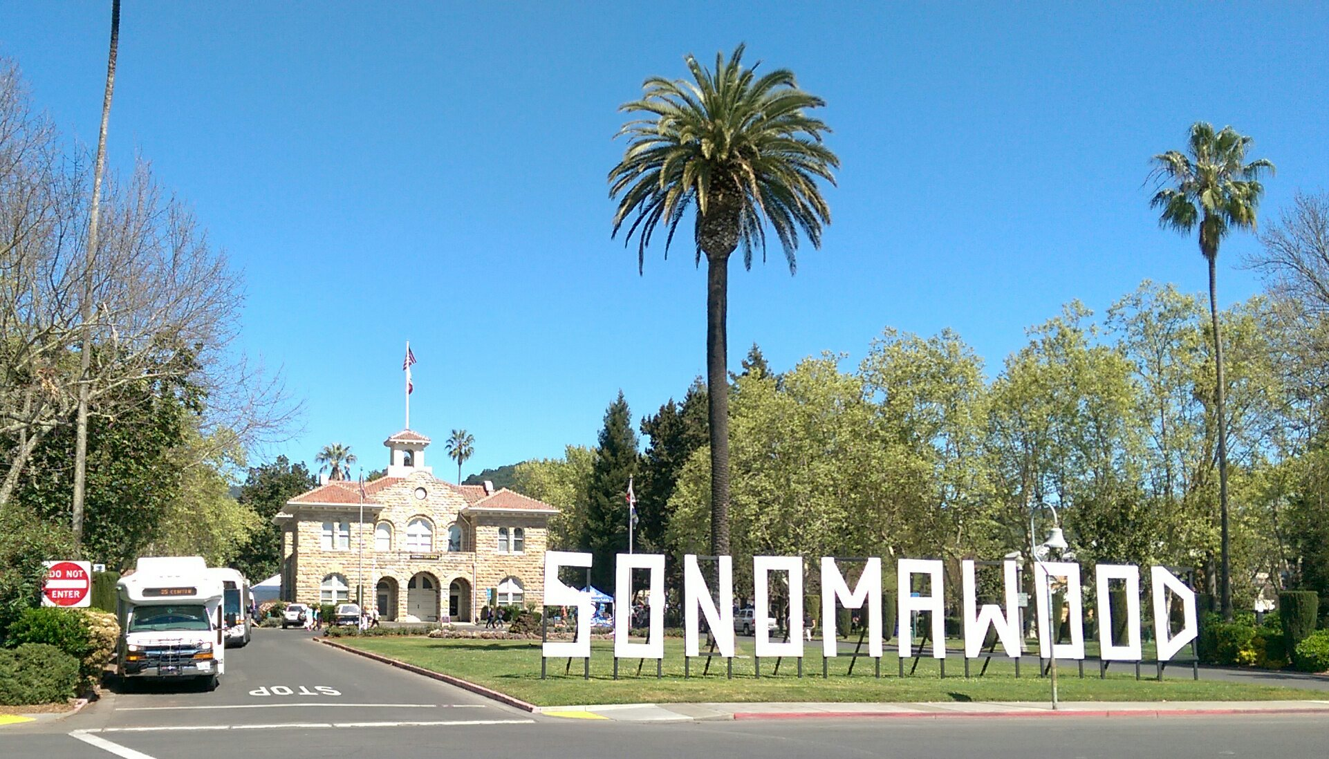 Promotional sign on the Sonoma Plaza during the 2015 Sonoma International Film Festival. Photo by Jim Heaphy.